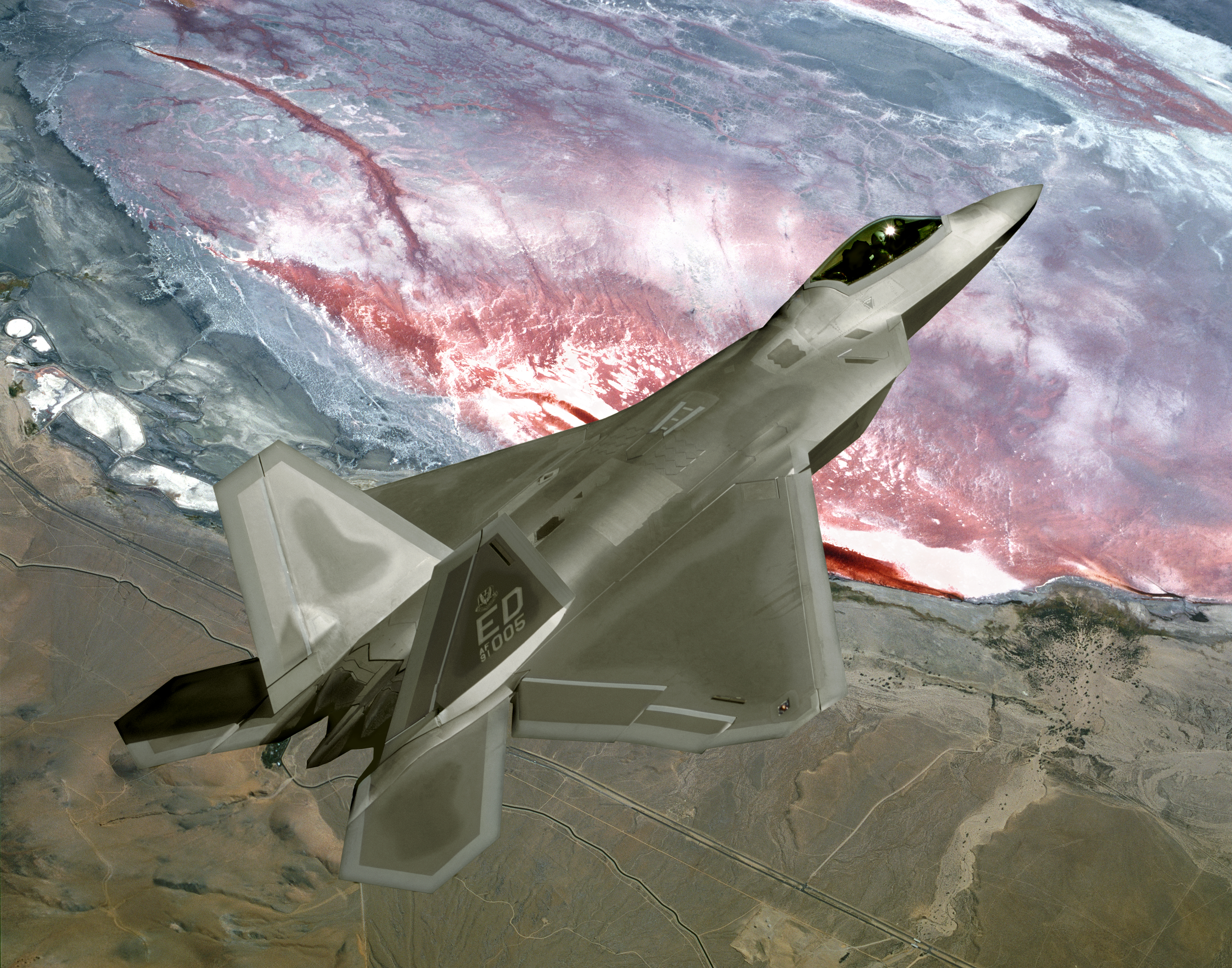 An F/A-22 Raptor flies a training mission over California